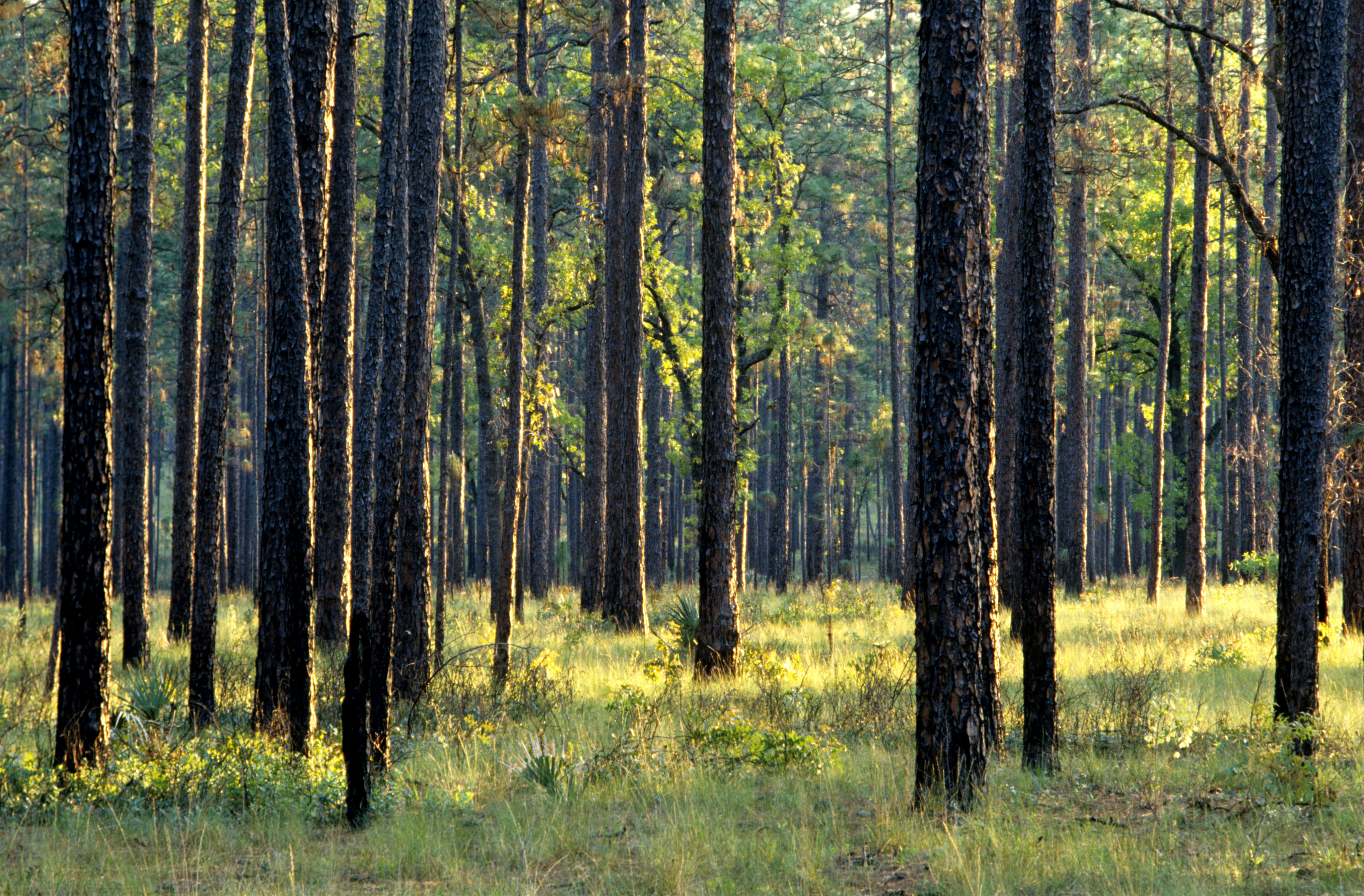 Pinus palustris forest, Ocala National Forest, Florida